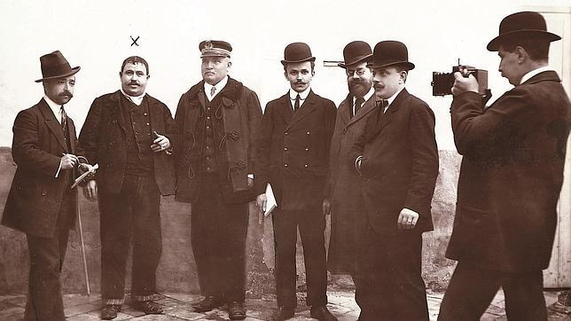 «El Vivillo», señalado por una cruz, durante su traslado a la cárcel de Córdoba - ABC, 1911